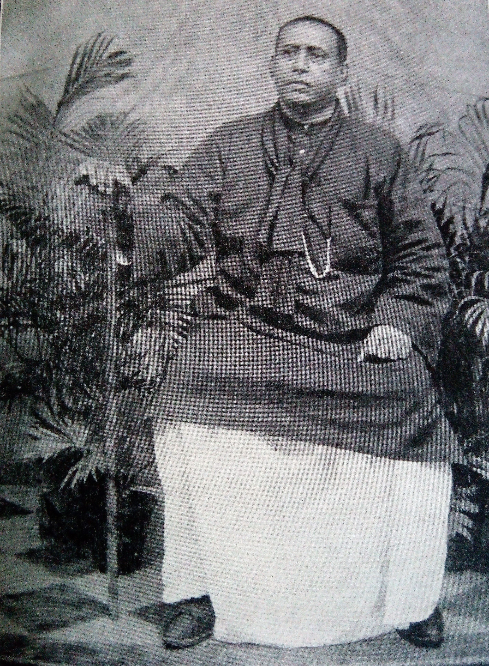 Paramhangsa Soham Swami in 1910